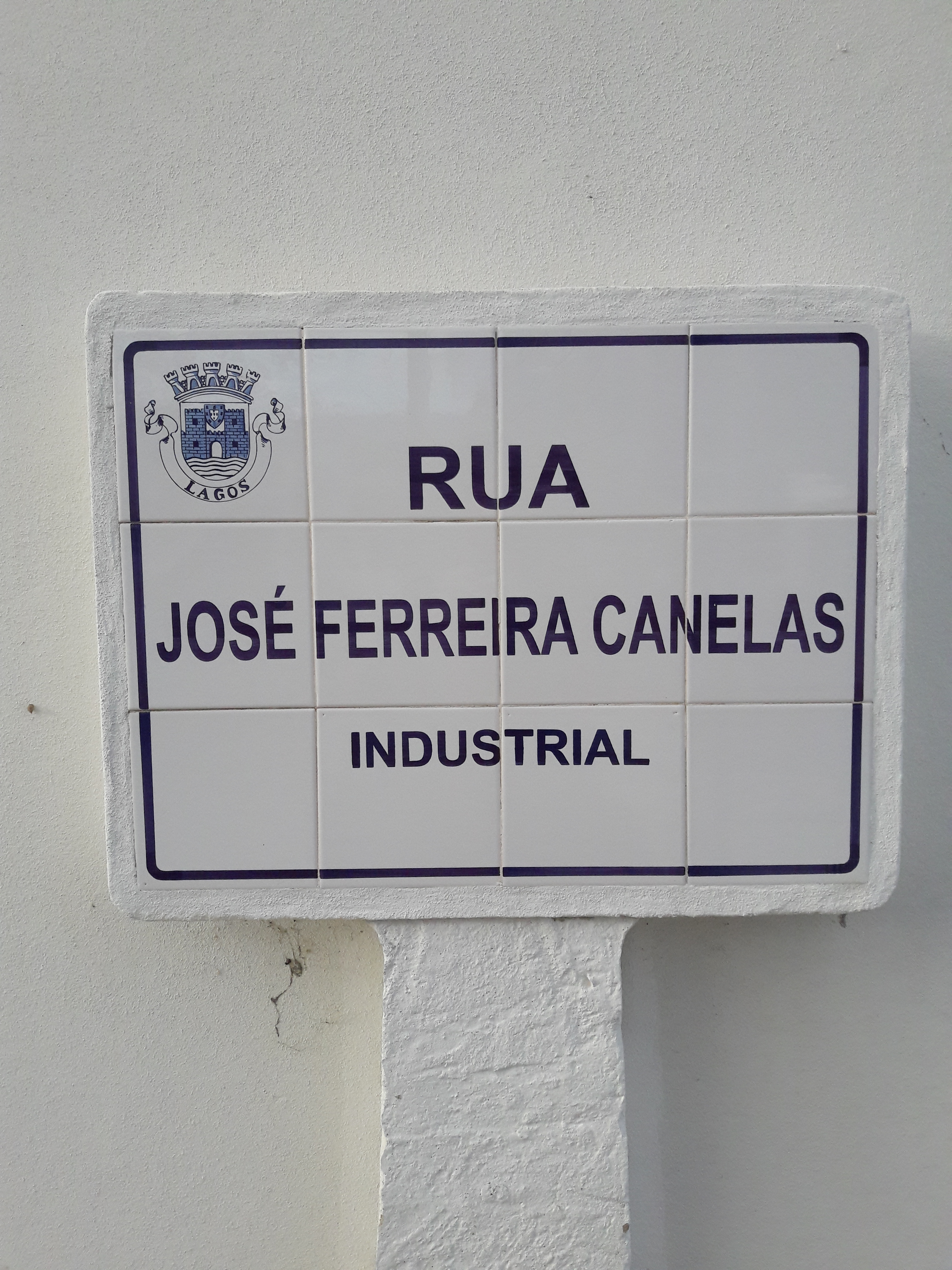 Street sign of Rua José Ferreira Canelas, in the city of Lagos, in southern Portugal.